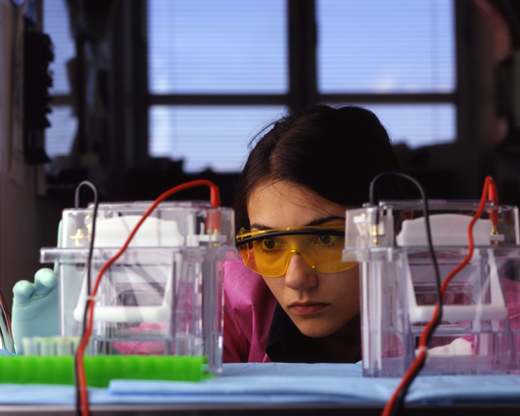 National Institute of Arthritis and Musculoskeletal and Skin Diseases (NIAMS), USA. This photograph shows Anastassia Tikhonova, B.S., using electropheresis apparatus to separate proteins by molecular weight. The principal investigator for this work is Juan Rivera, Ph.D.